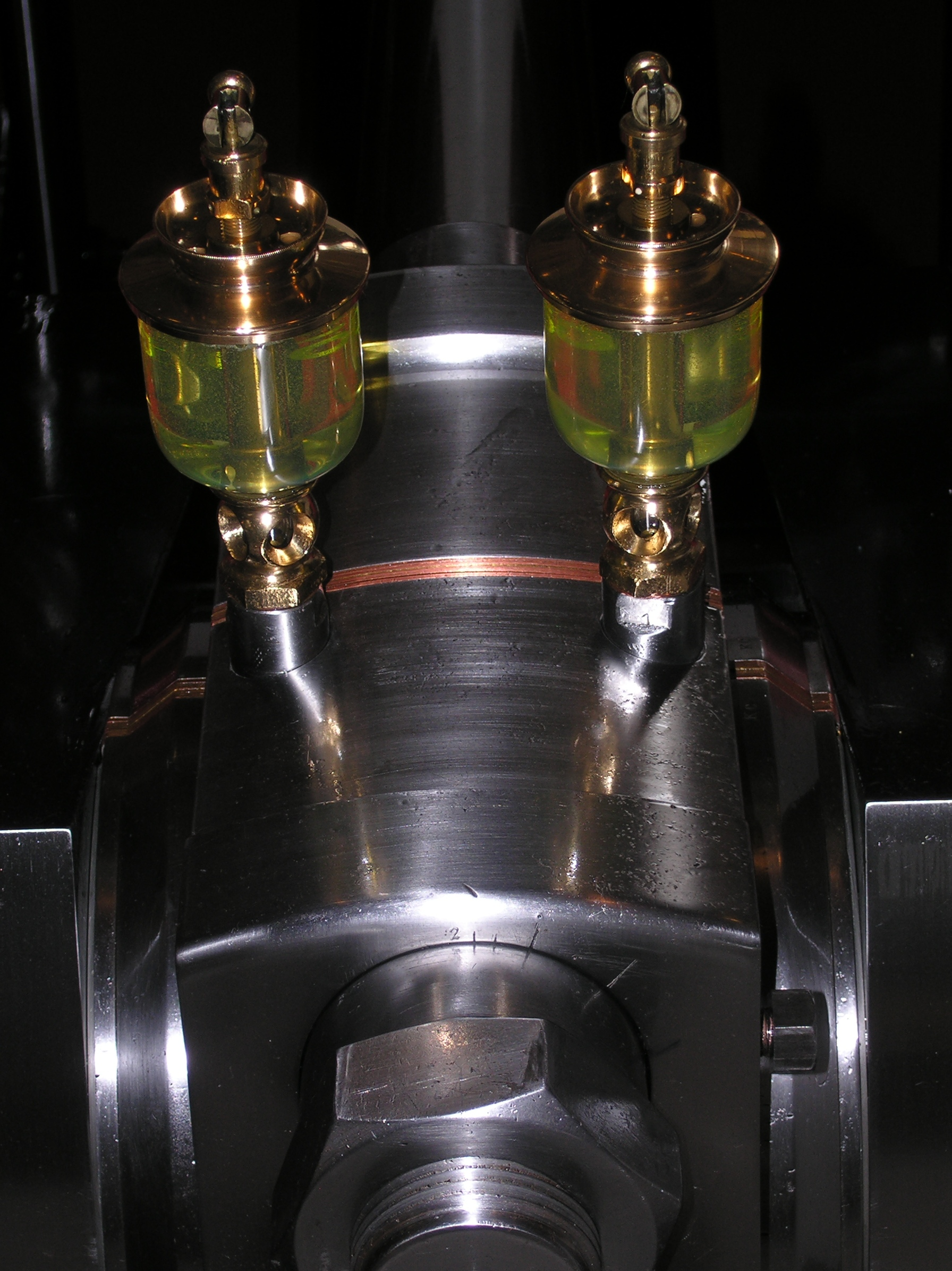 Lubrication system of the ship steam engine crank.